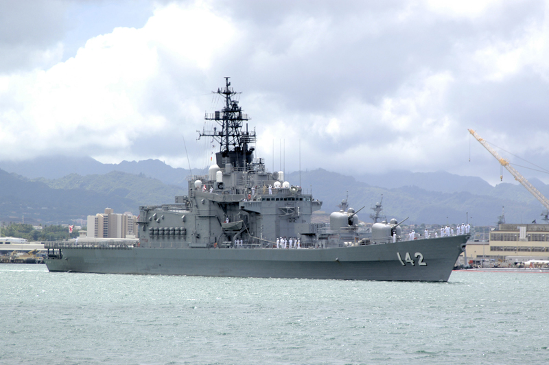 Pearl Harbor (July 5, 2006) - The JDS Hiei (DDH-142) of the Japanese Maritime Self Defense Force departs Pearl Harbor in support of Rim of the Pacific 2006 exercises. Eight nations are participating in Rim of the Pacific (RIMPAC) 2006, the worlds largest biennial maritime exercise. Conducted in the waters off Hawaii from June 26 through July 28, 2006, RIMPAC 2006 brings together military forces from Australia, Canada, Chile, Peru, Japan, the Republic of Korea, the United Kingdom and the United States. Official U.S. Navy photo by MC2 Jason C. Swink.